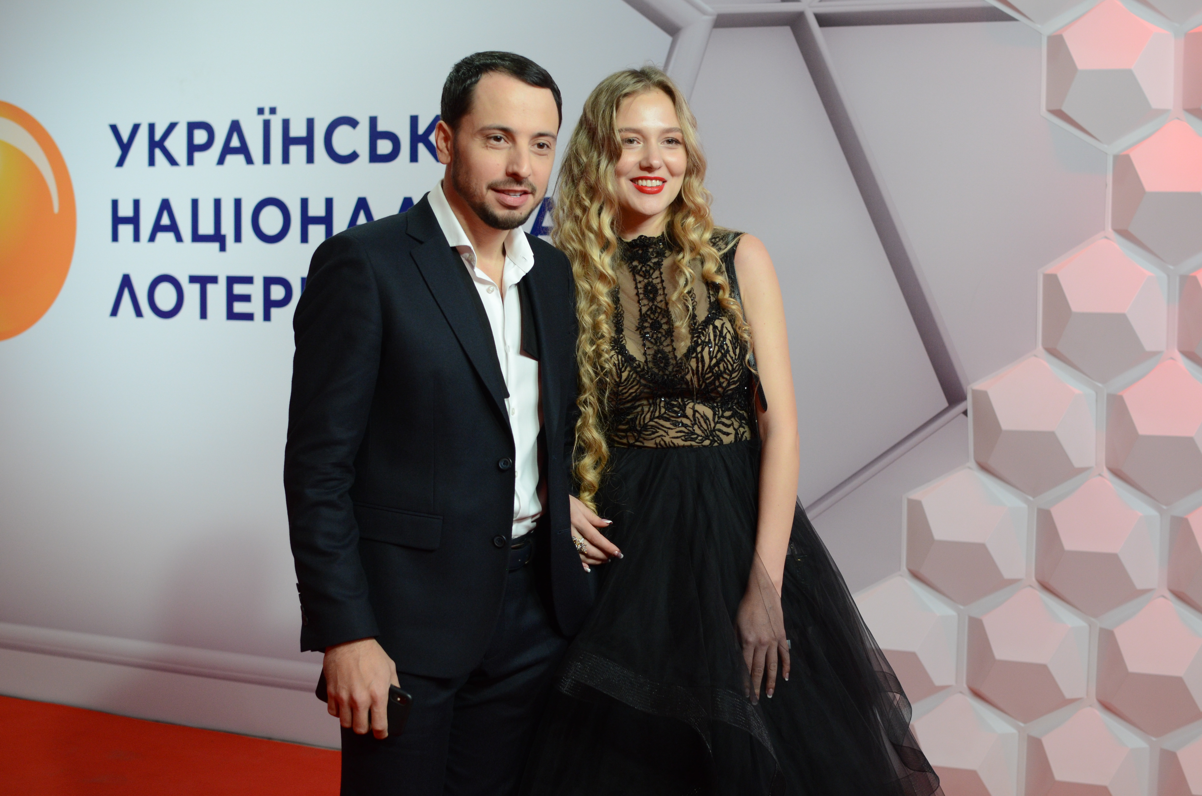 M1 Music Awards 2019, Kyiv, Palace of Sports, November 30, 2019.